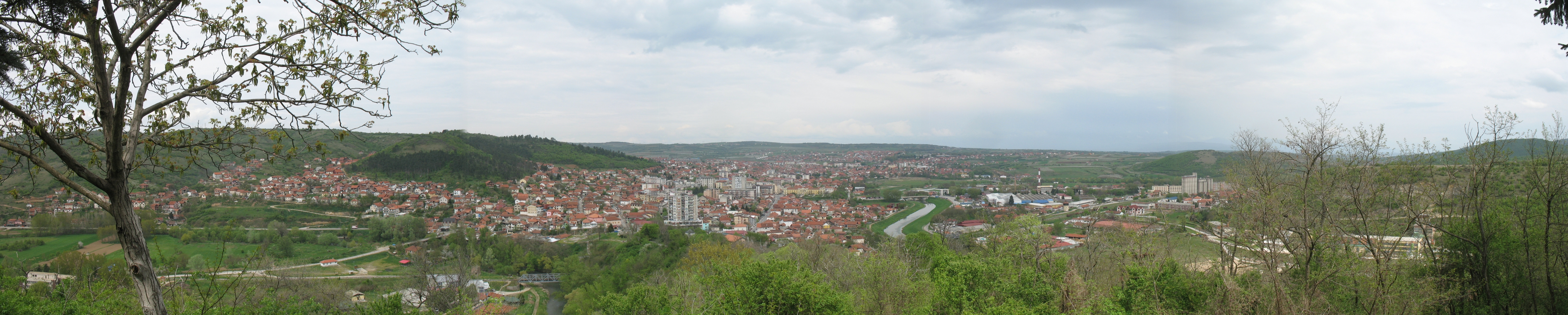 Panoramic view on Prokuplje from Savićevac, Serbia.